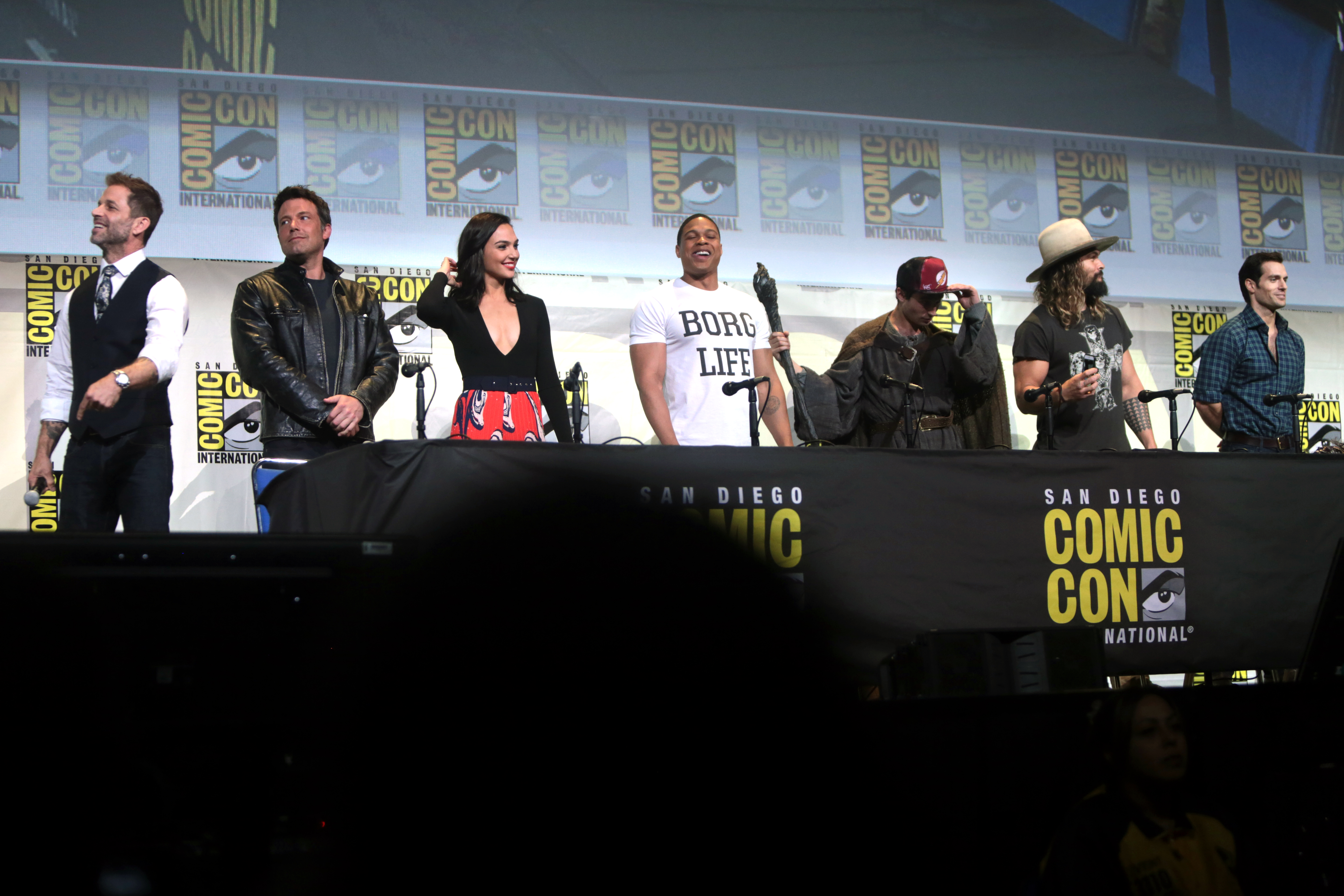 Ben Affleck, Gal Gadot, Ray Fisher, Ezra Miller, Jason Momoa and Henry Cavill speaking at the 2016 San Diego Comic Con International, for "Justice League", at the San Diego Convention Center in San Diego, California.